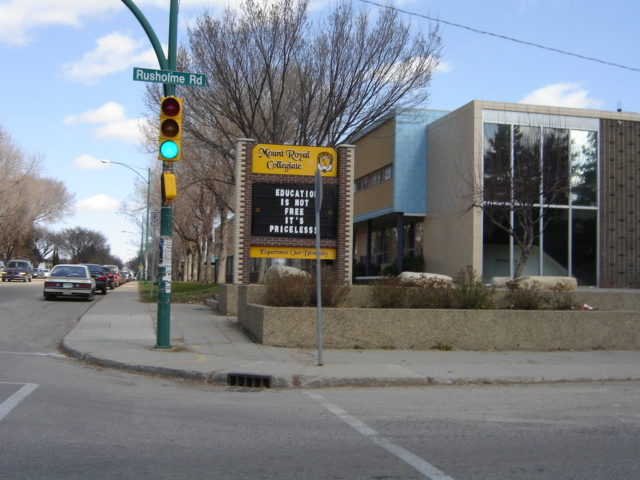 Mount Royal Collegiate Mount Royal, Saskatoon